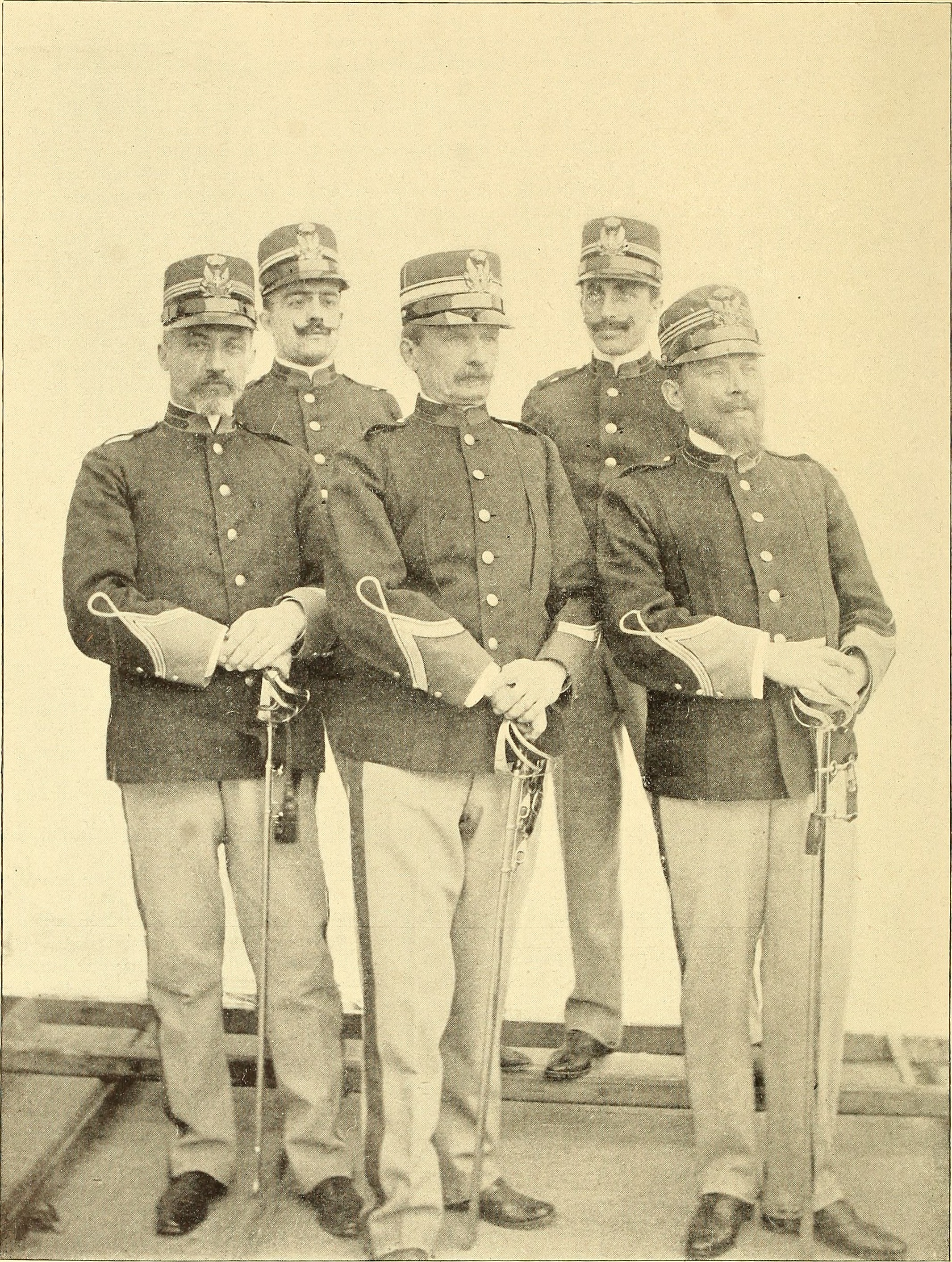 Title: Annual report Year: 1902 (1900s) Authors: New York (State). Forest, Fish and Game Commission Subjects: Forests and forestry Fisheries Game and game-birds Publisher: (Albany, N.Y. : The Commission) Text Appearing Before Image: ' Text Appearing After Image: A. FKABtHI, PHOTO. ITALIAN FORESTERS. OFFICERS OF THE FORESTRY DEPARTMENT, FLORENCE, ITALY. Forest Rarseries and Norser^ Metljods in Earope By William F. Fox. InfrodaCfor^. IN the management of American forests the time has come when it wouldseem evident to all interested in the work that the future timber supply-in many localities is dependent on reforestation. But natural reforestation isunsatisfactory from the foresters point of view. In results it falls short, by far,of the maximum in quantity and quality of merchantable timber which a givenarea can be made to yield through proper methods of silvicultural work. The highly satisfactory results attained from planted forests in Europe, wherethis practice has been followed for two centuries or more, justifies clearly theadoption of this system in America. The New Forest in England was afforestedby order of William the Conqueror, in 1079, and since then reforestation has beenpracticed from time to time in European countries, until cult